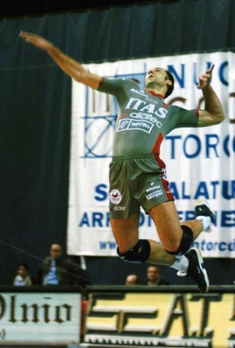 Italian volleyball player Andrea Sartoretti serving